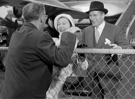 MGM film director George Cukor, greeting Laurence Olivier and his wife actress Vivien Leigh at airport in Los Angeles, Calif., 1957